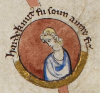 Harthacnut as a child